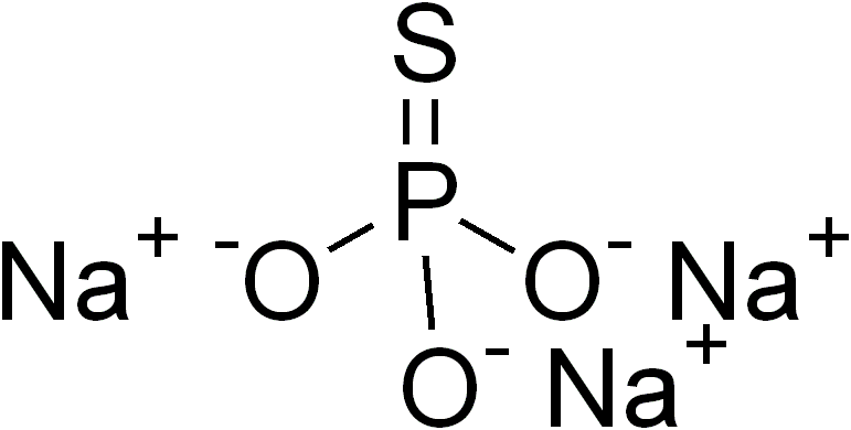 Chemical structure of sodium monothiophosphate